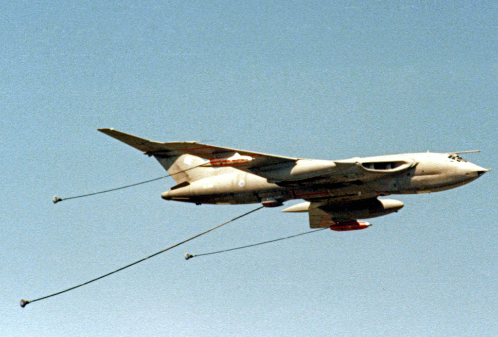 Handley Page Victor K.2 XL188 of 55 Squadron in 1985